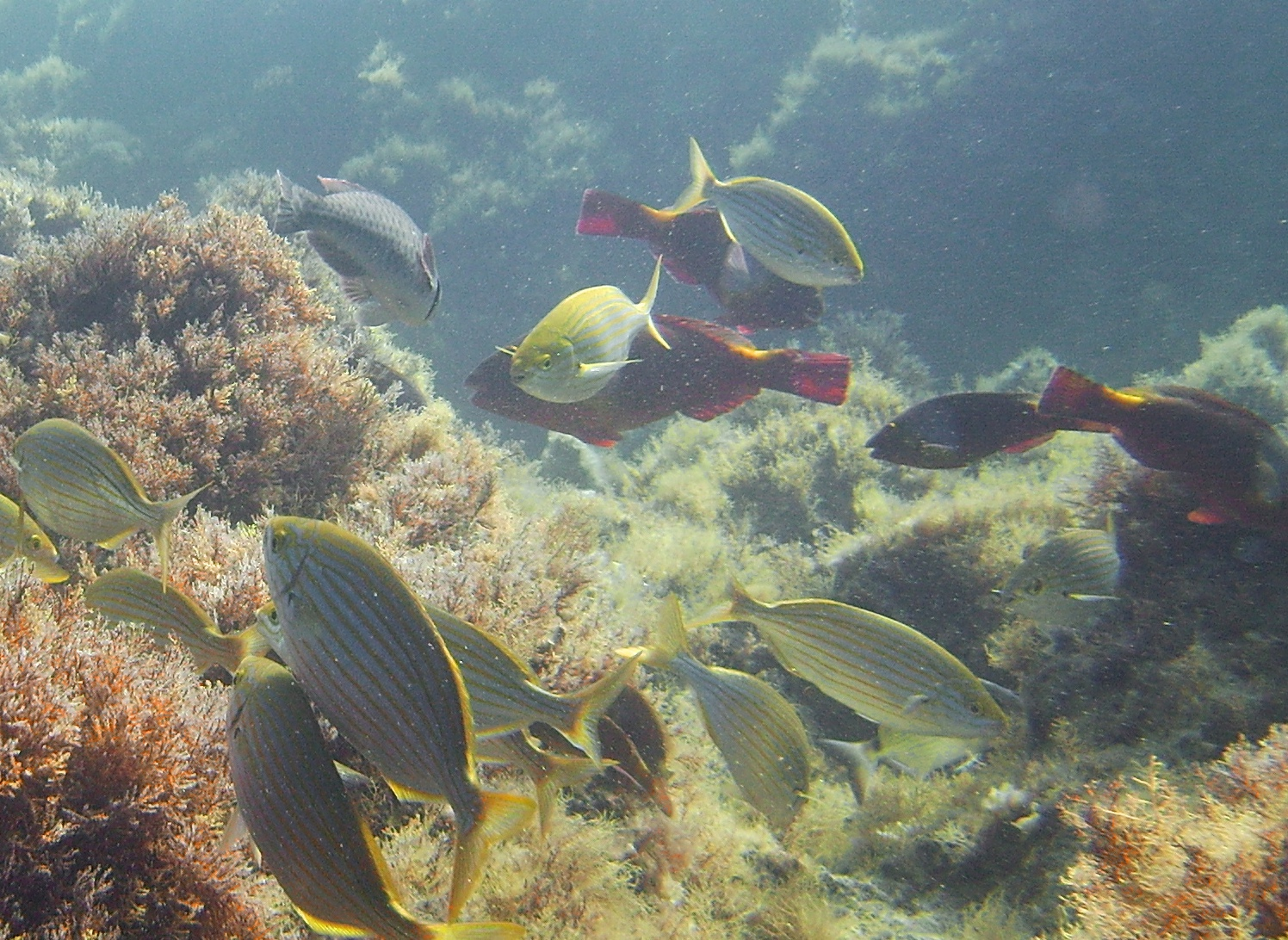 Mediterranean parrotfish (Sparisoma cretense) and Salema porgy (Sarpa salpa)